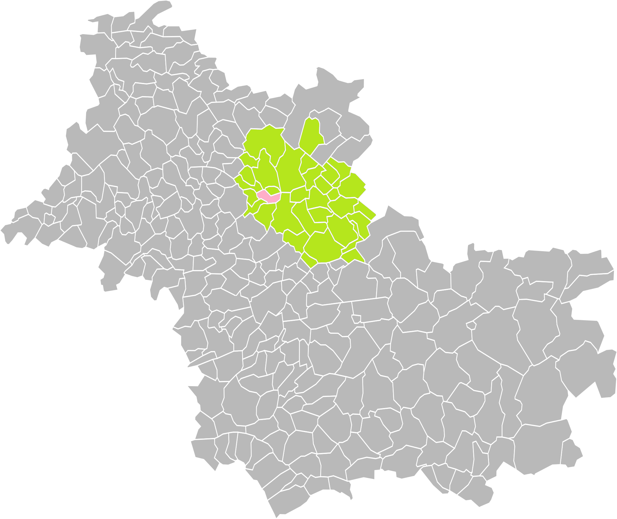 Location of the commune of Boisseau in the Communauté de communes de la Beauce-Val de Loire (Loir-et-Cher)